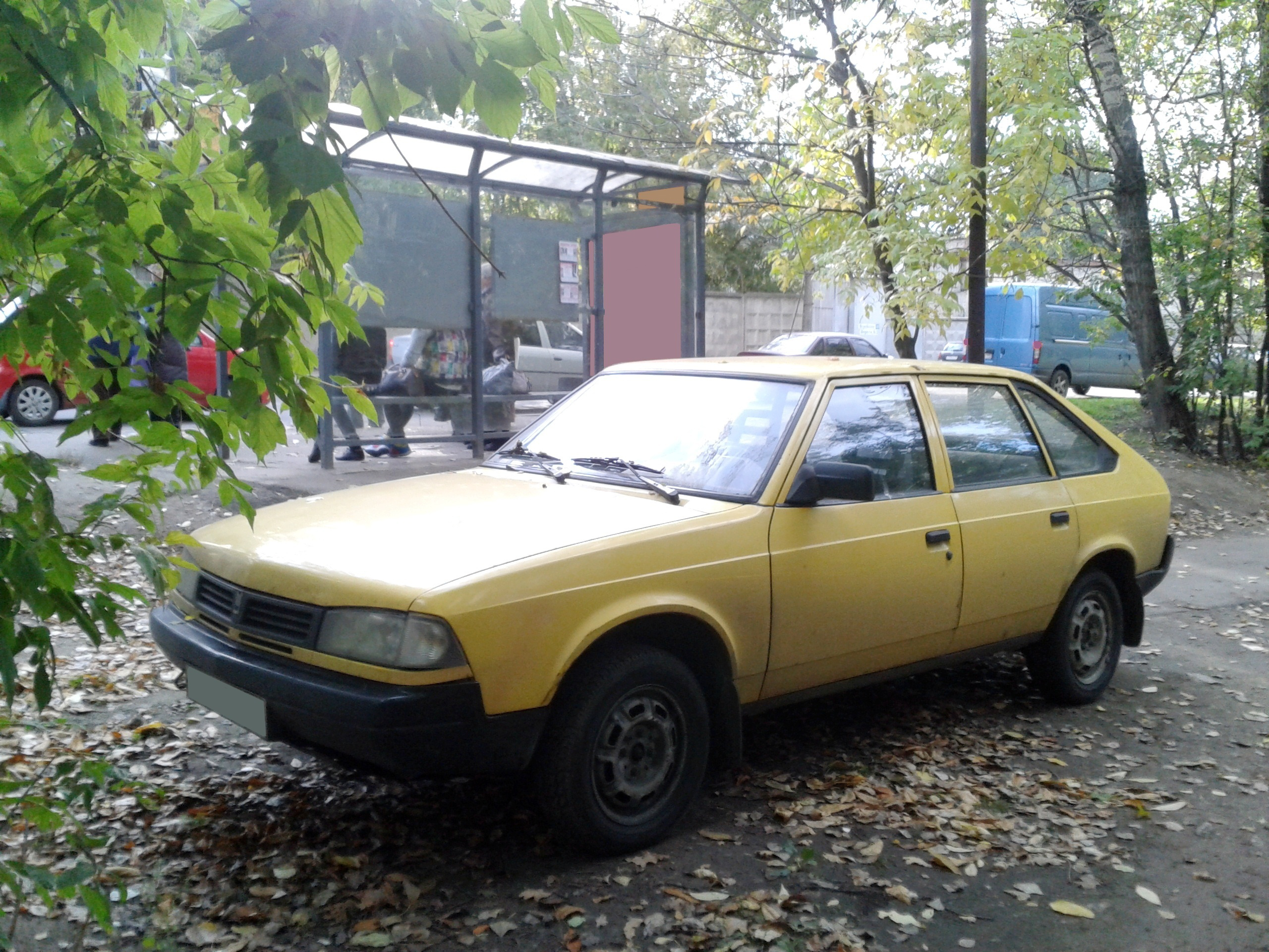 Moskvich 2141 Svjatogor.